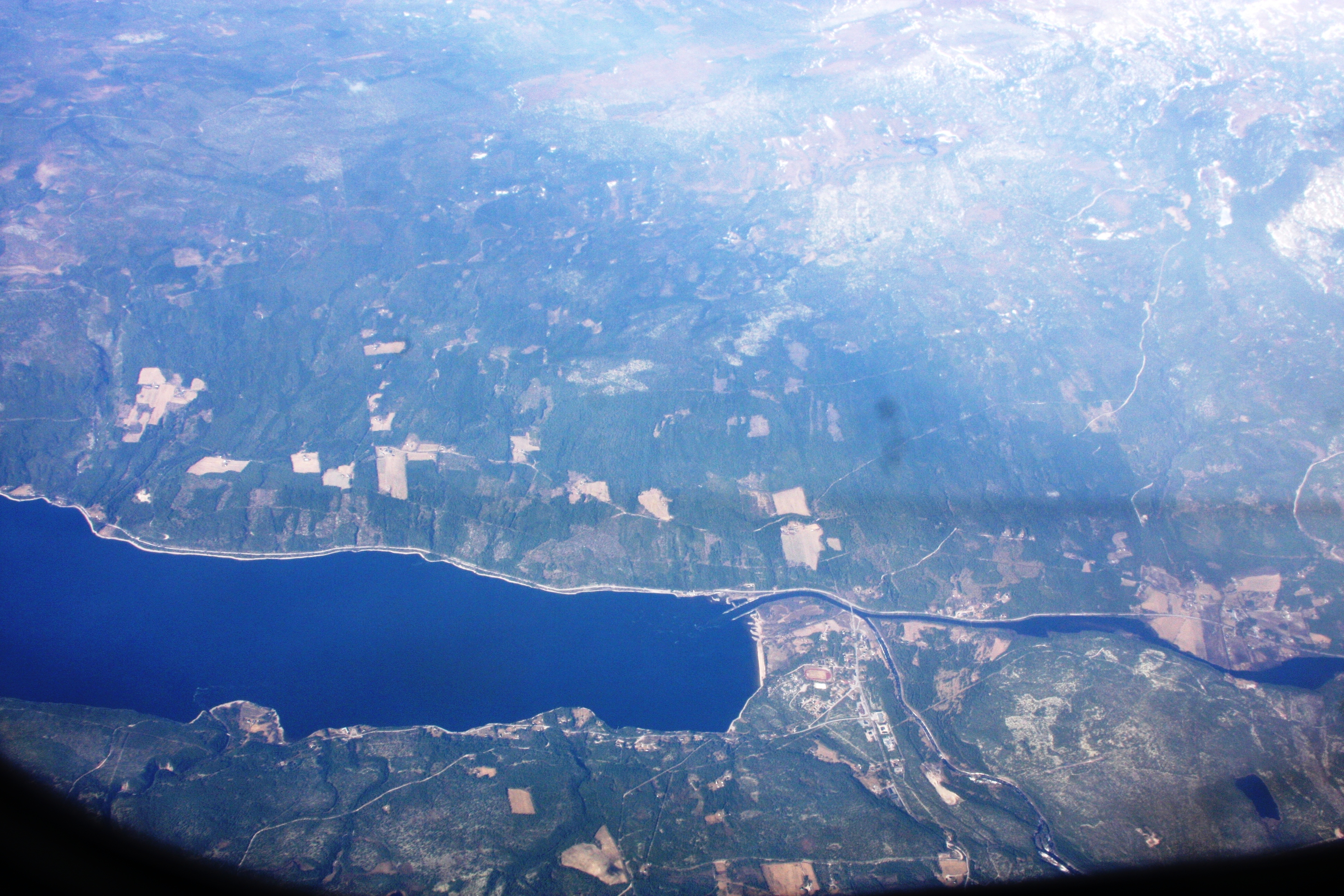 Lake Storsjöen, in the Rena river, municipality of Rendalen, Norway.